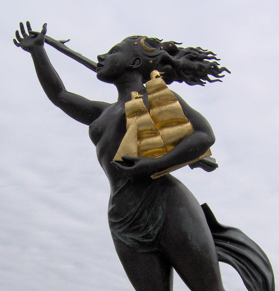 The Spirit of South Shields, a 1998 waterfront sculpture by Irene Brown. Self taken, 2005.